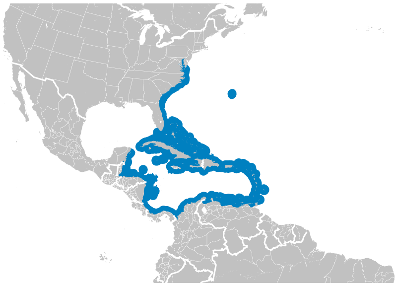 Geographical distribution of the Blue Parrotfish Scarus coeruleus. The map was created using the Generic Mapping Tools, GMT, version 5.1.2.